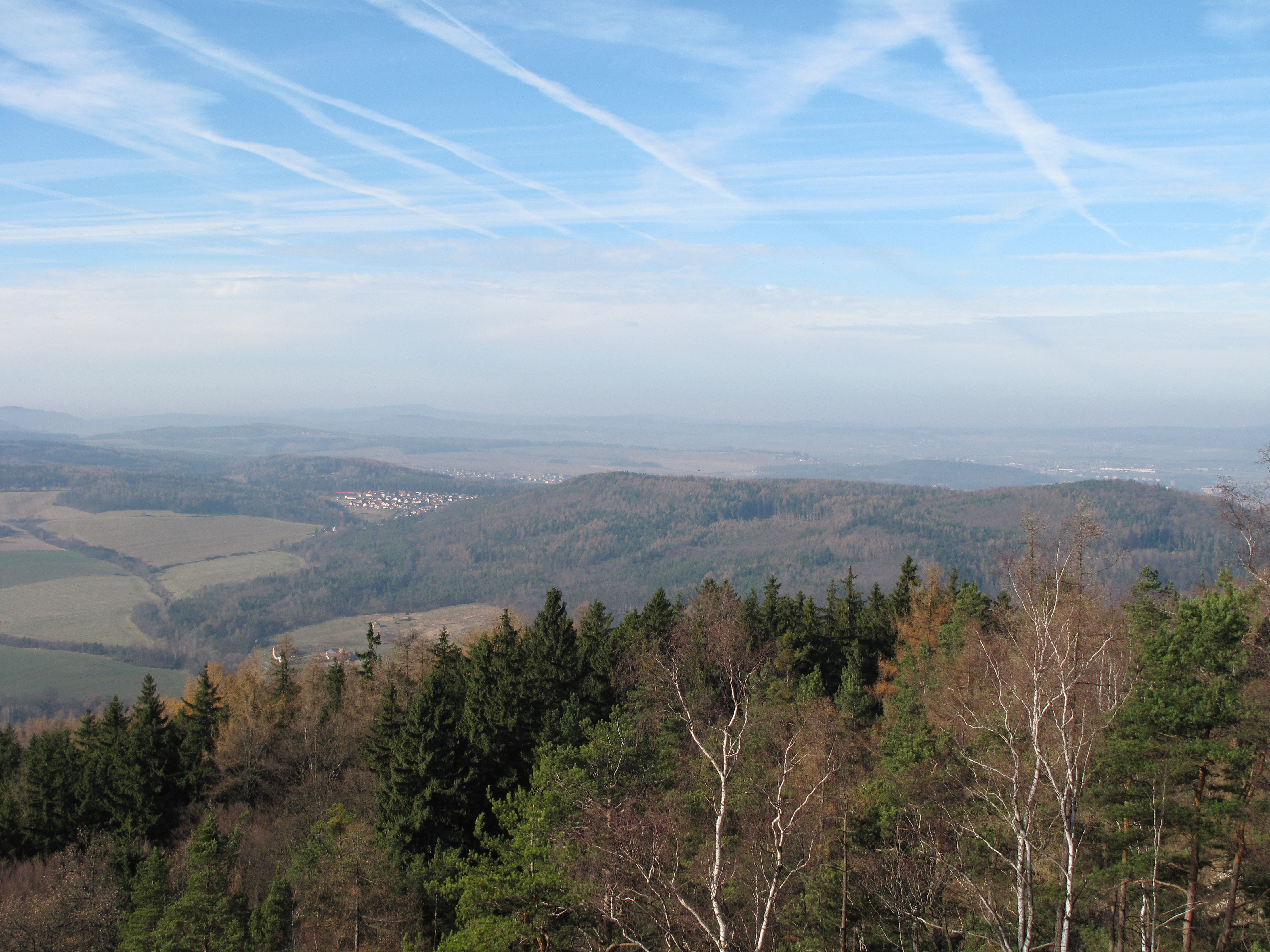 West view from Plešivec Hill (654 m), Beroun District, Czech Republic.